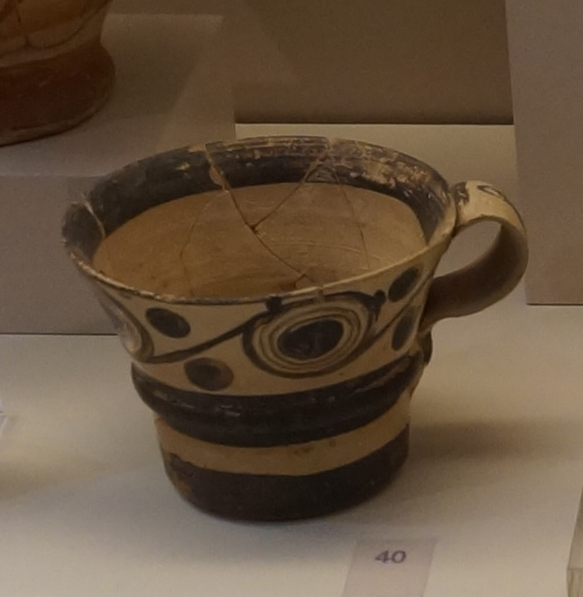 Nafplio, Argolis, Greece: Archaeological Museum of Nafplio: Vaphio cup from chamber tomb 3 of Asine cementery (16th century BC).